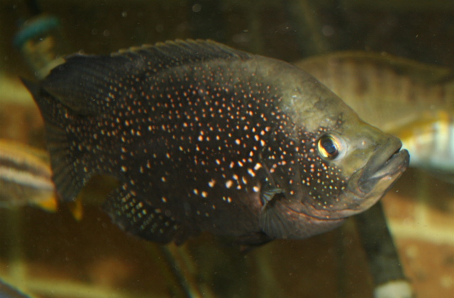 Paratilapia polleni Photo: Dr. David Midgley